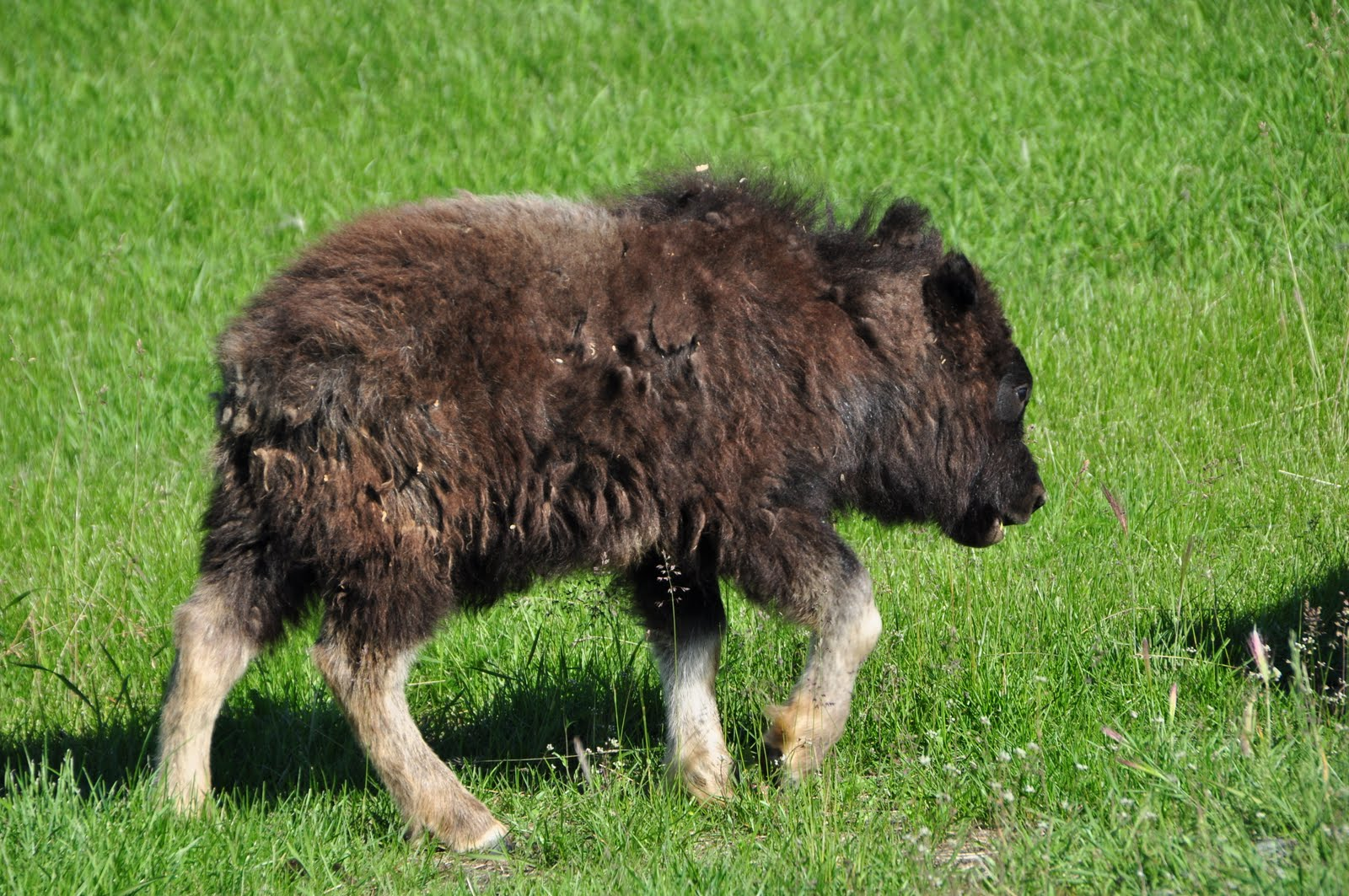 Baby musk ox